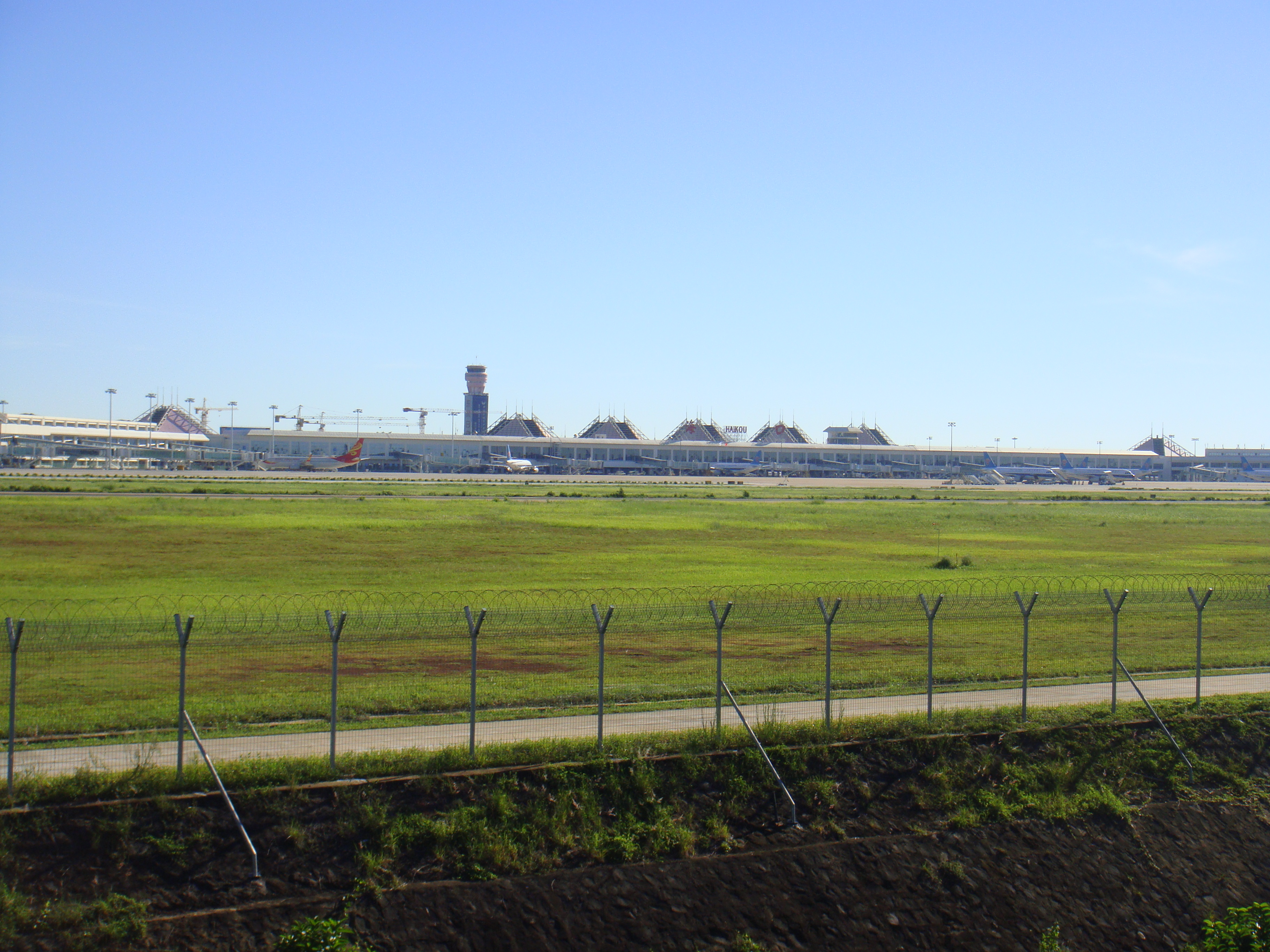 Haikou Meilan International Airport viewed from the south